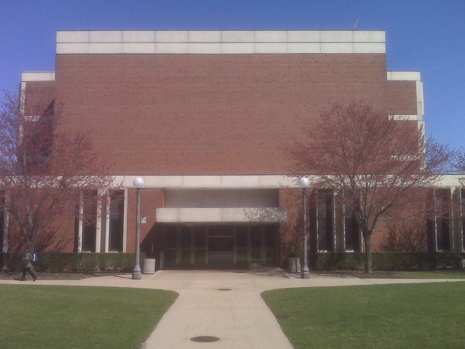 This is a picture of the west entrance to Newmark Civil Engineering Laboratory at the University of Illinois.